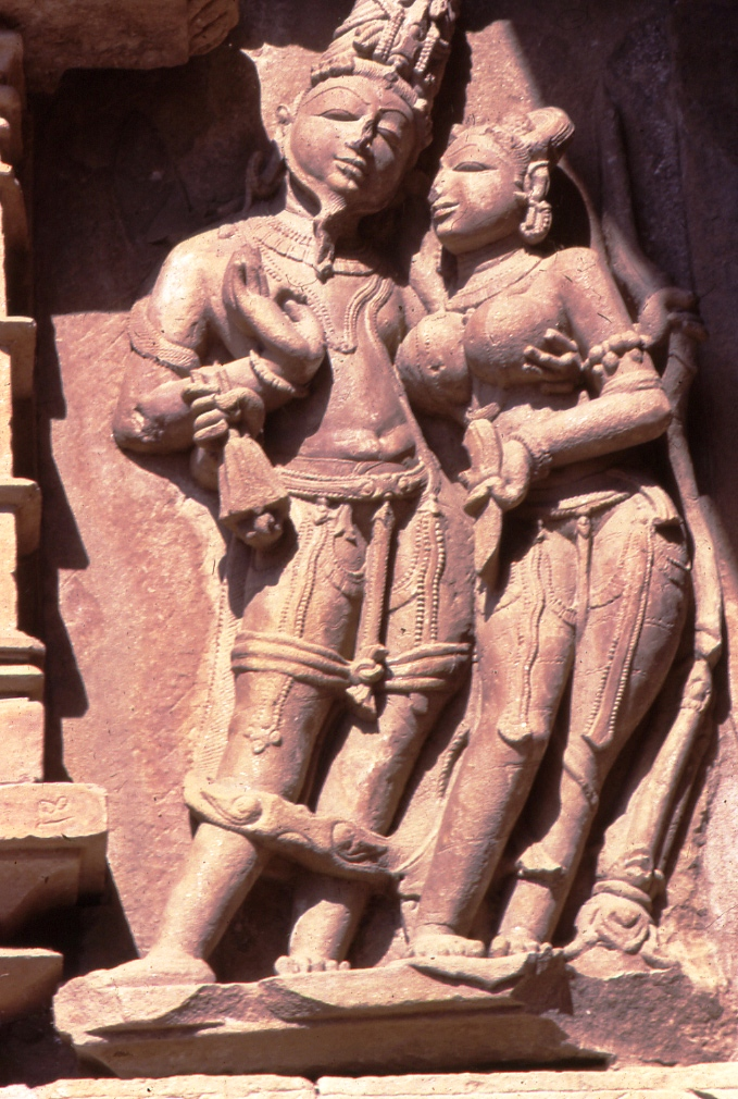 Parsvanath Temple, Khajuraho, Madhya Pradesh, India